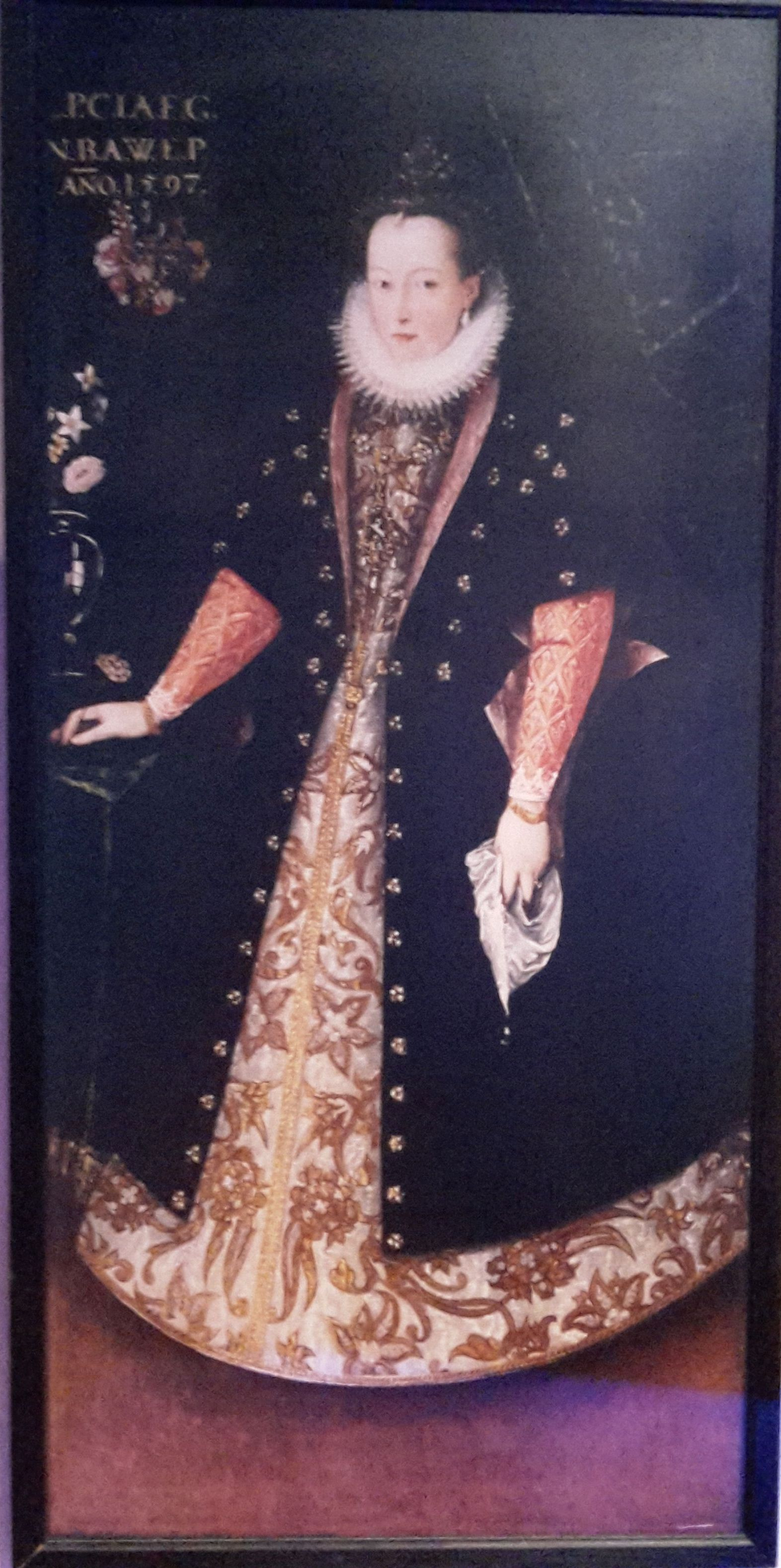 Leonora Philipina Welsperg (†4. January 1614), wife of Kaspar von Hohenems (Vorarlberg, Austria). Painting from the year 1597th. Found in the public knight-hall of the Palace in Hohenems.